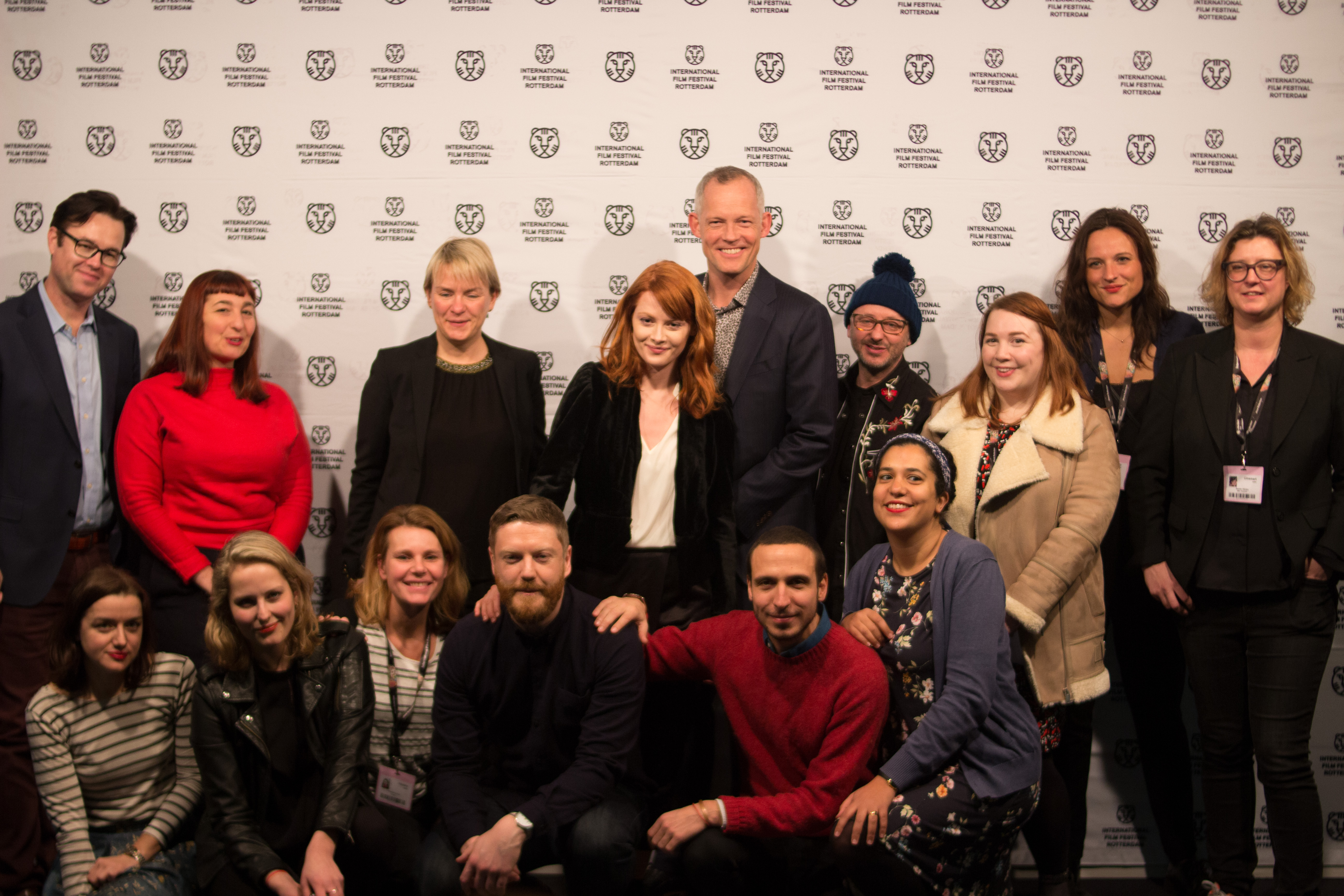 Filmmaker Peter Mackie Burns PremiereWorld premiereCountryUnited KingdomYear2017MediumDCPLength90LanguageEnglishProducerValentina Brazzini, Tristan GoligherProduction CompanyThe BureauSalesThe Bureau SalesWriterNico MensingaCinematographyAdam ScarthEditorNick EmersonProduction DesignMiren MarañónSound DesignJoakim SundströmCastEmily Beecham